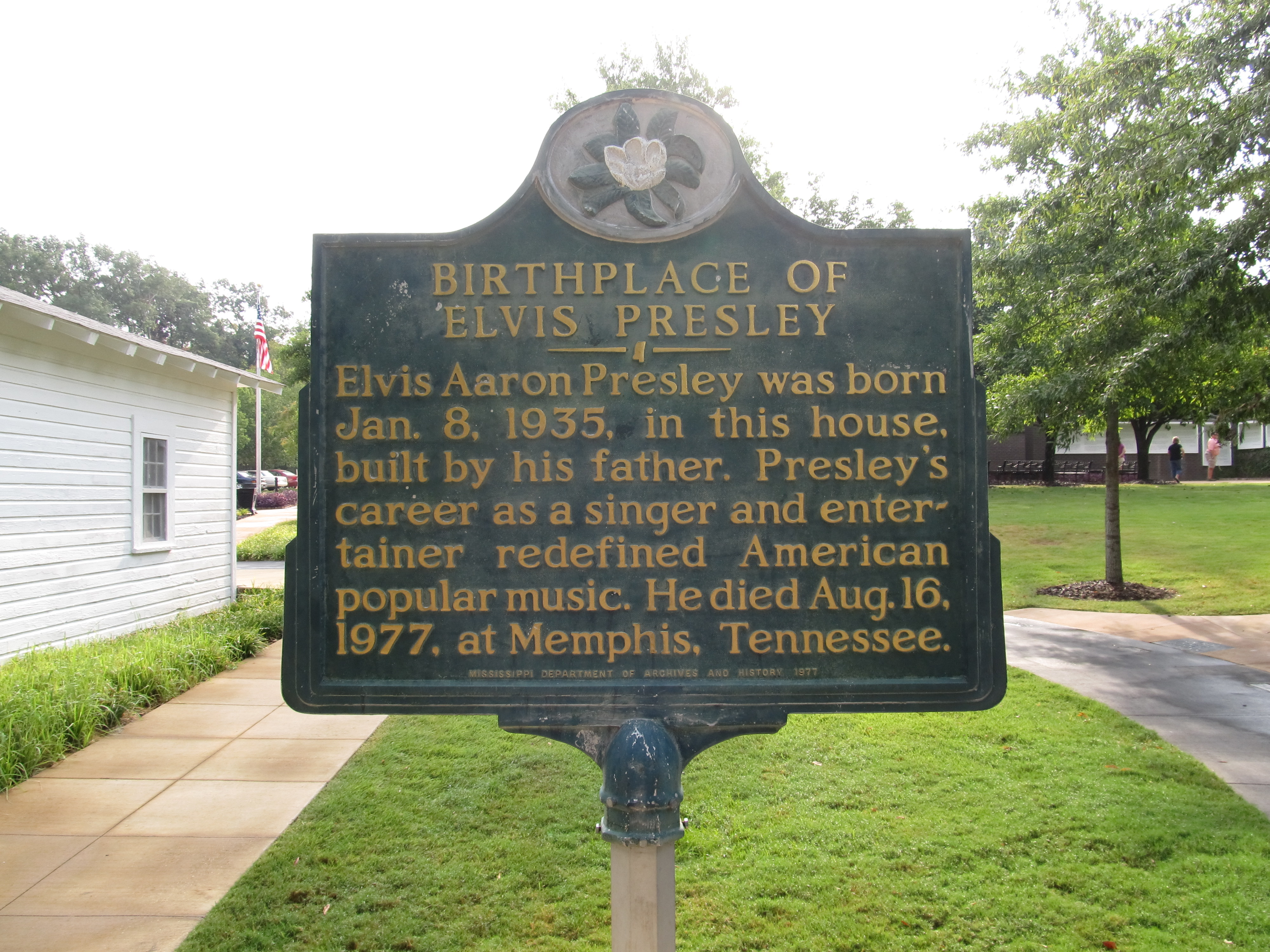 Elvis Aaron Presley (January 8, 1935 – August 16, 1977) was an American singer and actor. A cultural icon, he is commonly known by the single name Elvis. One of the most popular musicians of the 20th century, he is often referred to as the "King of Rock and Roll" or simply "the King". Born in Tupelo, Mississippi, Presley moved to Memphis, Tennessee, with his family at the age of 13. He began his career there in 1954, working with Sun Records owner Sam Phillips, who wanted to bring the sound of African American music to a wider audience. Accompanied by guitarist Scotty Moore and bassist Bill Black, Presley was the most important popularizer of rockabilly, an uptempo, backbeat-driven fusion of country and rhythm and blues. RCA Victor acquired his contract in a deal arranged by Colonel Tom Parker, who went on to manage the singer for over two decades. Presley's first RCA single, "Heartbreak Hotel", released in January 1956, was a number-one hit. He became the leading figure of the newly popular sound of rock and roll with a series of network television appearances and chart-topping records. His energized interpretations of songs, many from African American sources, and his uninhibited performance style made him enormously popular—and controversial. Presley is regarded as one of the most important figures of 20th-century popular culture. He had a versatile voice and unusually wide success encompassing many genres, including country, pop ballads, gospel, and blues. He is the best-selling solo artist in the history of popular music. Nominated for 14 competitive Grammys, he won three, and received the Grammy Lifetime Achievement Award at age 36. He has been inducted into multiple music halls of fame.